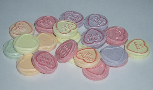 By Richard Wheeler (Zephyris) 07-03-2006